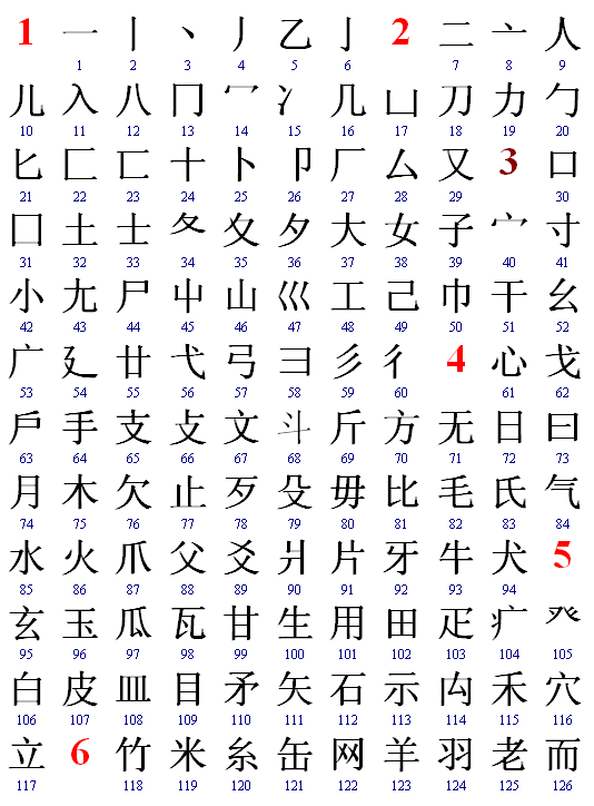 Chinese Radicals